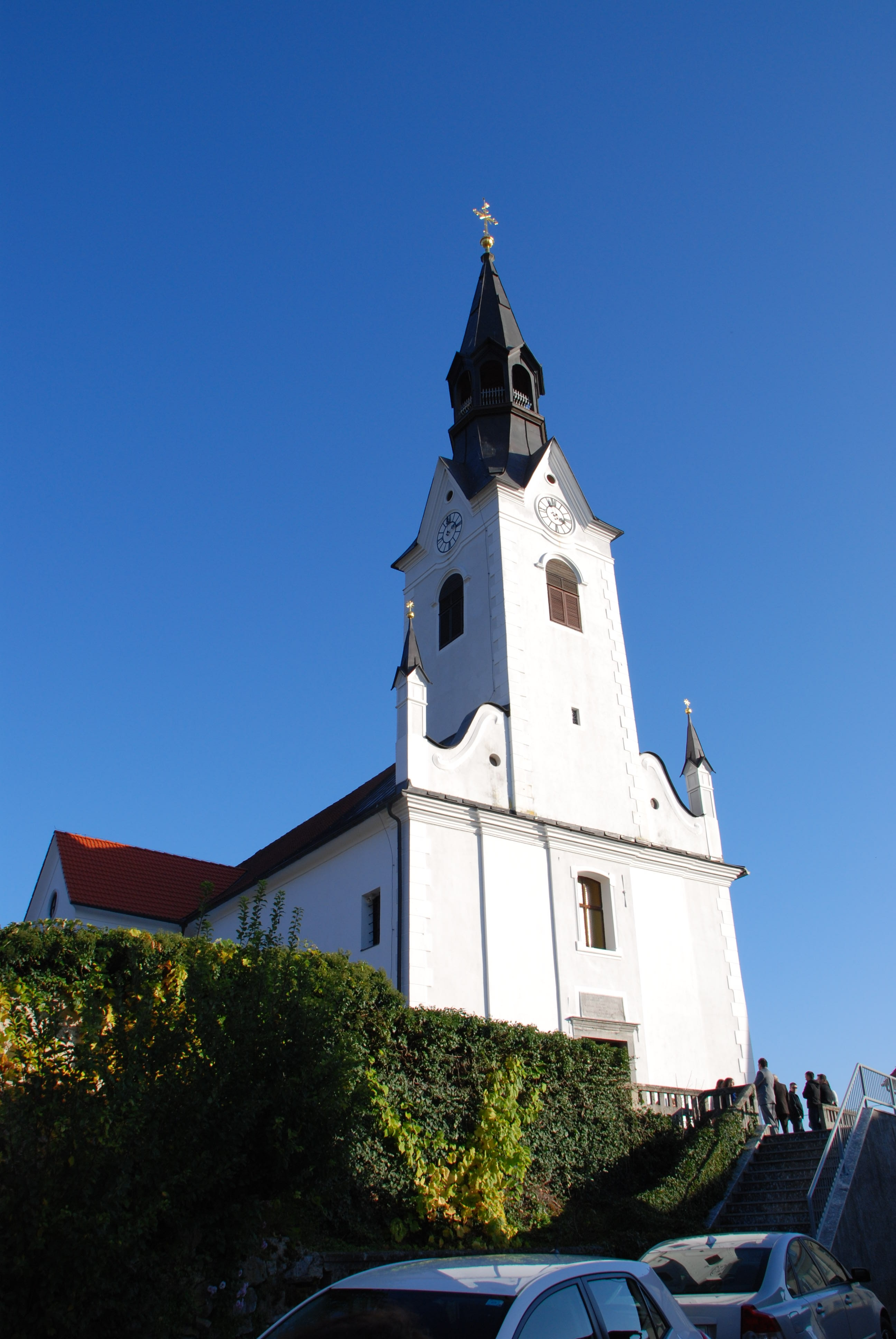 Exaltation of the Holy Cross Parish Church in Gabrovka (Municipality of Litija), southeastern Slovenia.